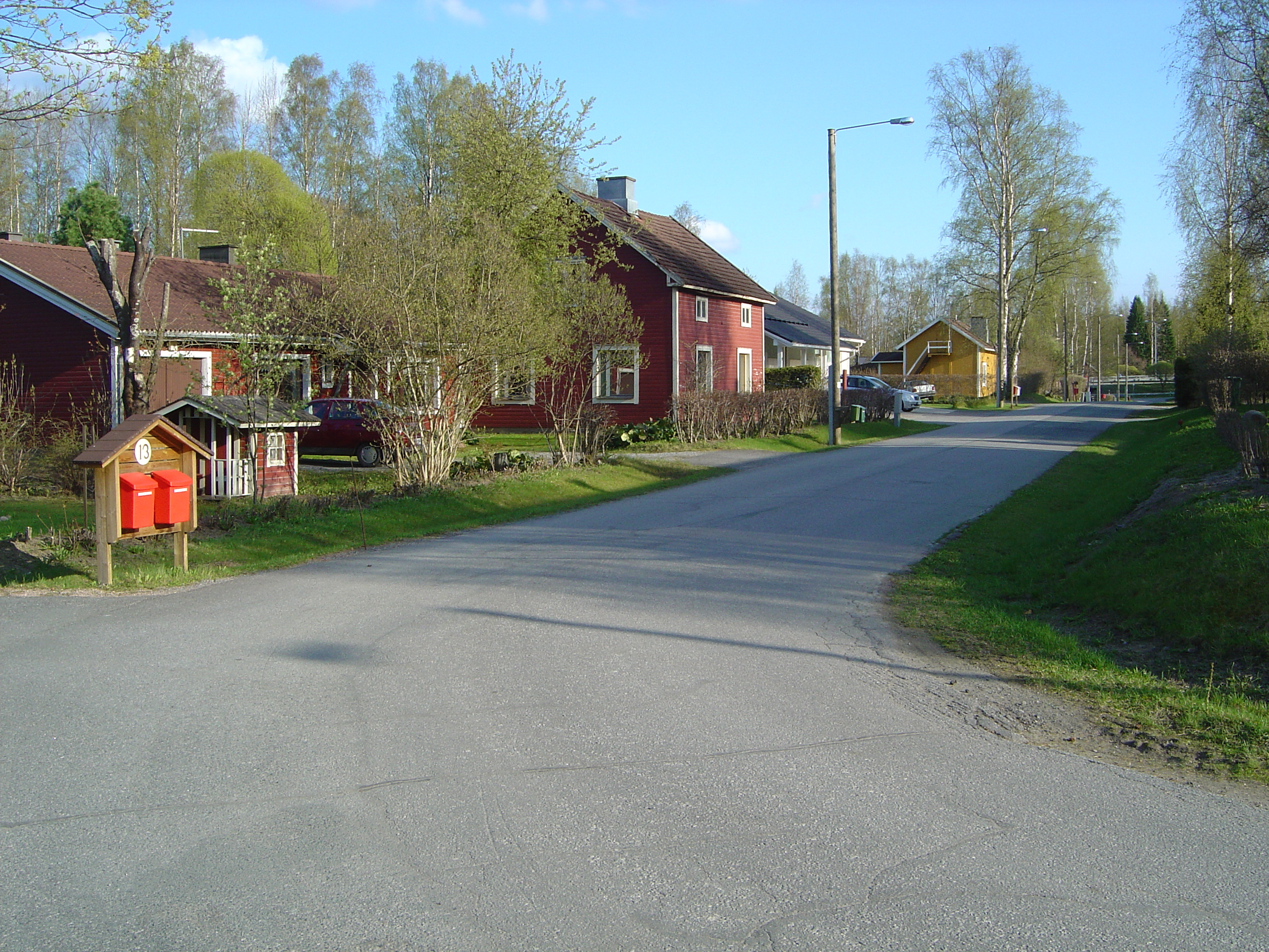 Jokitie streets in Ahmo, Siilinjärvi, Finland